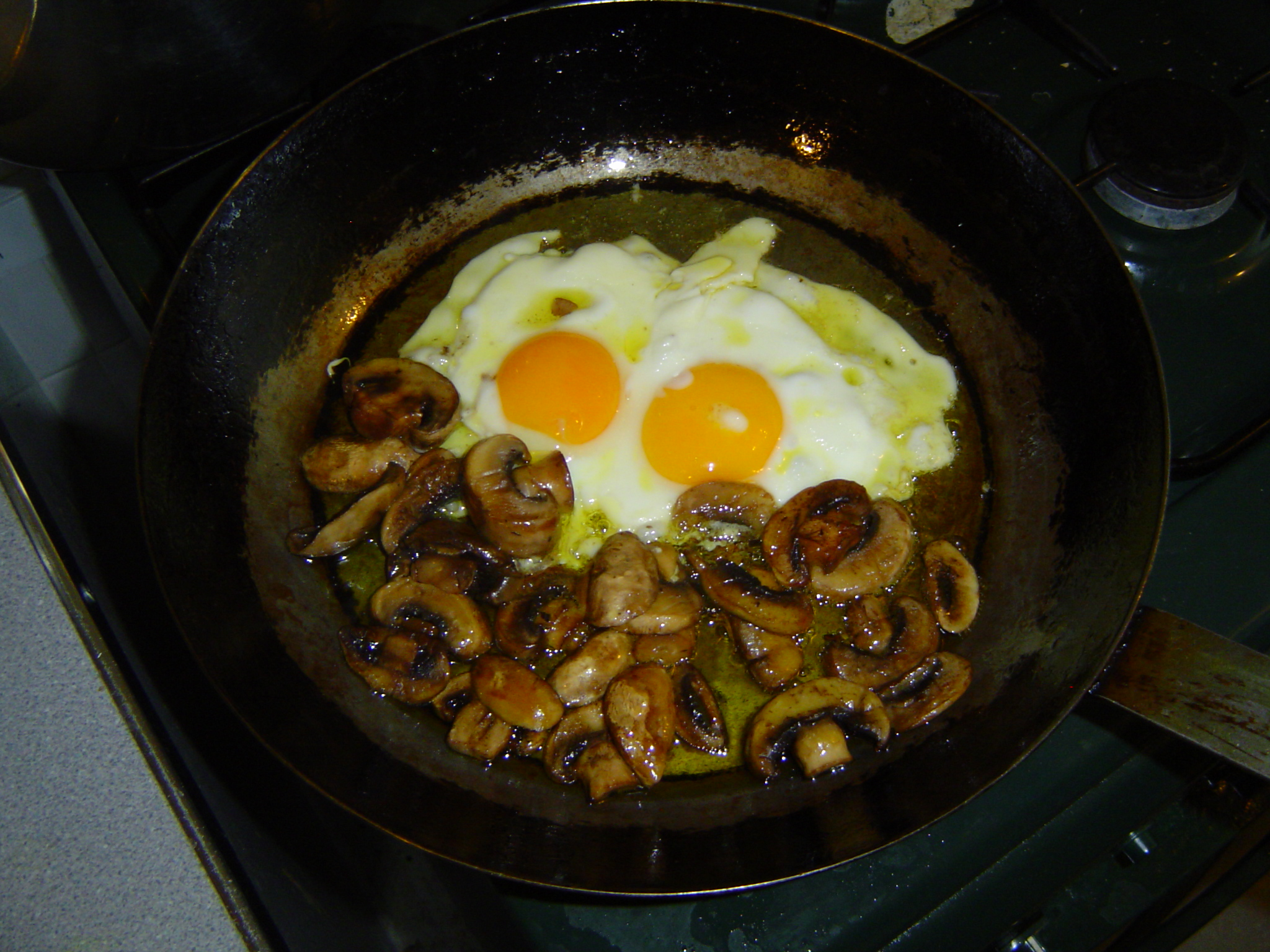 Fried eggs with fried mushrooms